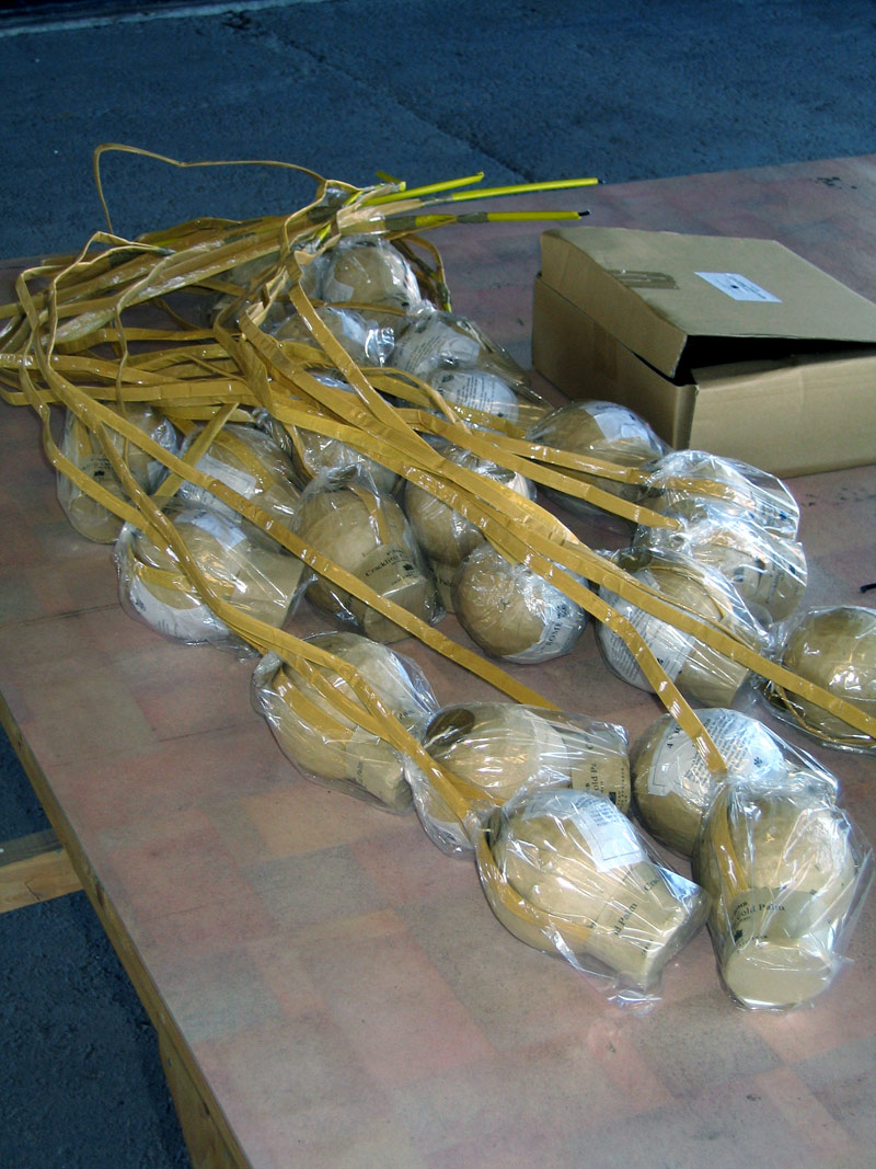 Four inch firework shells for professional use.